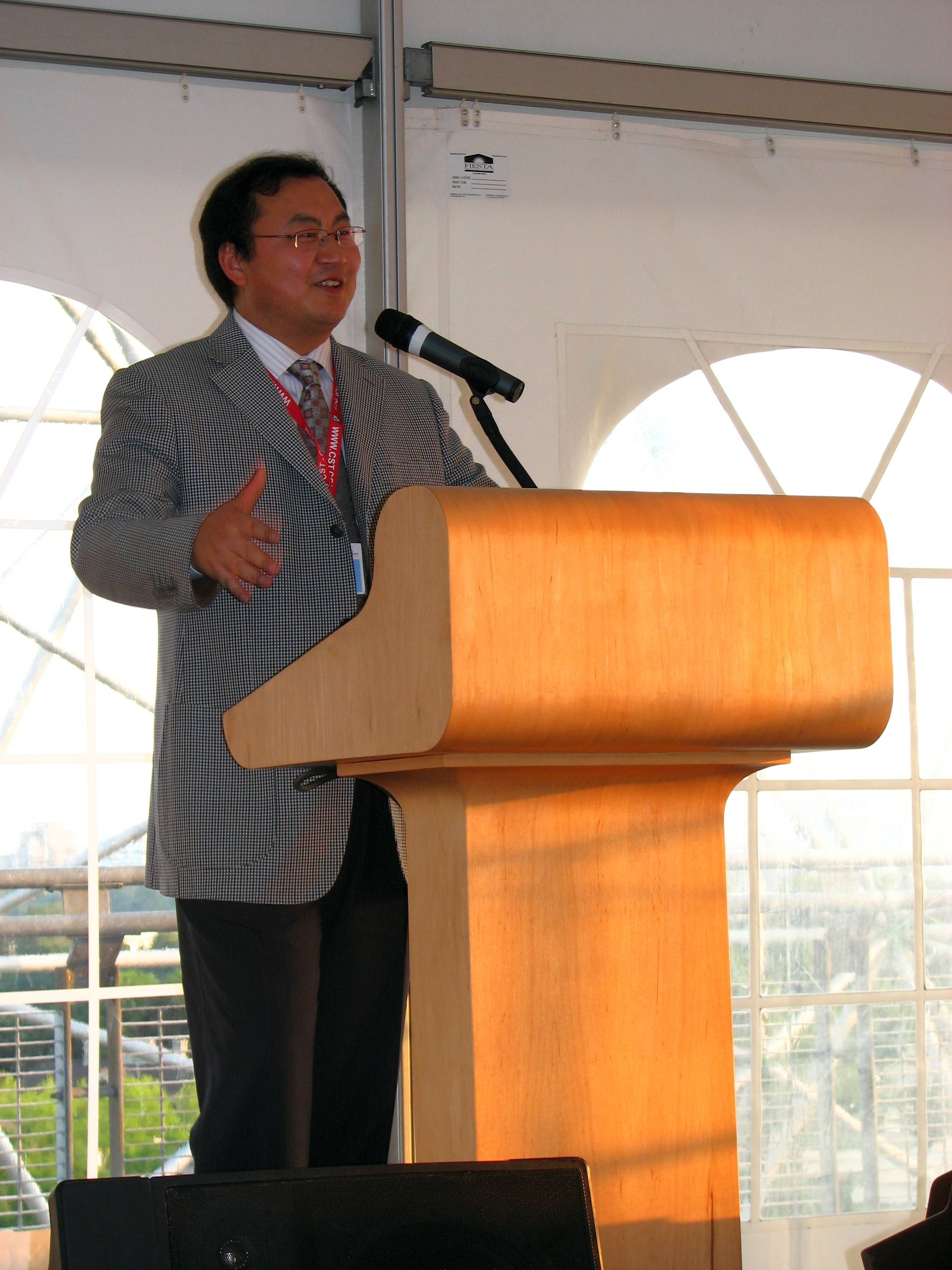 Prof.Wu during the ISSSE Conference